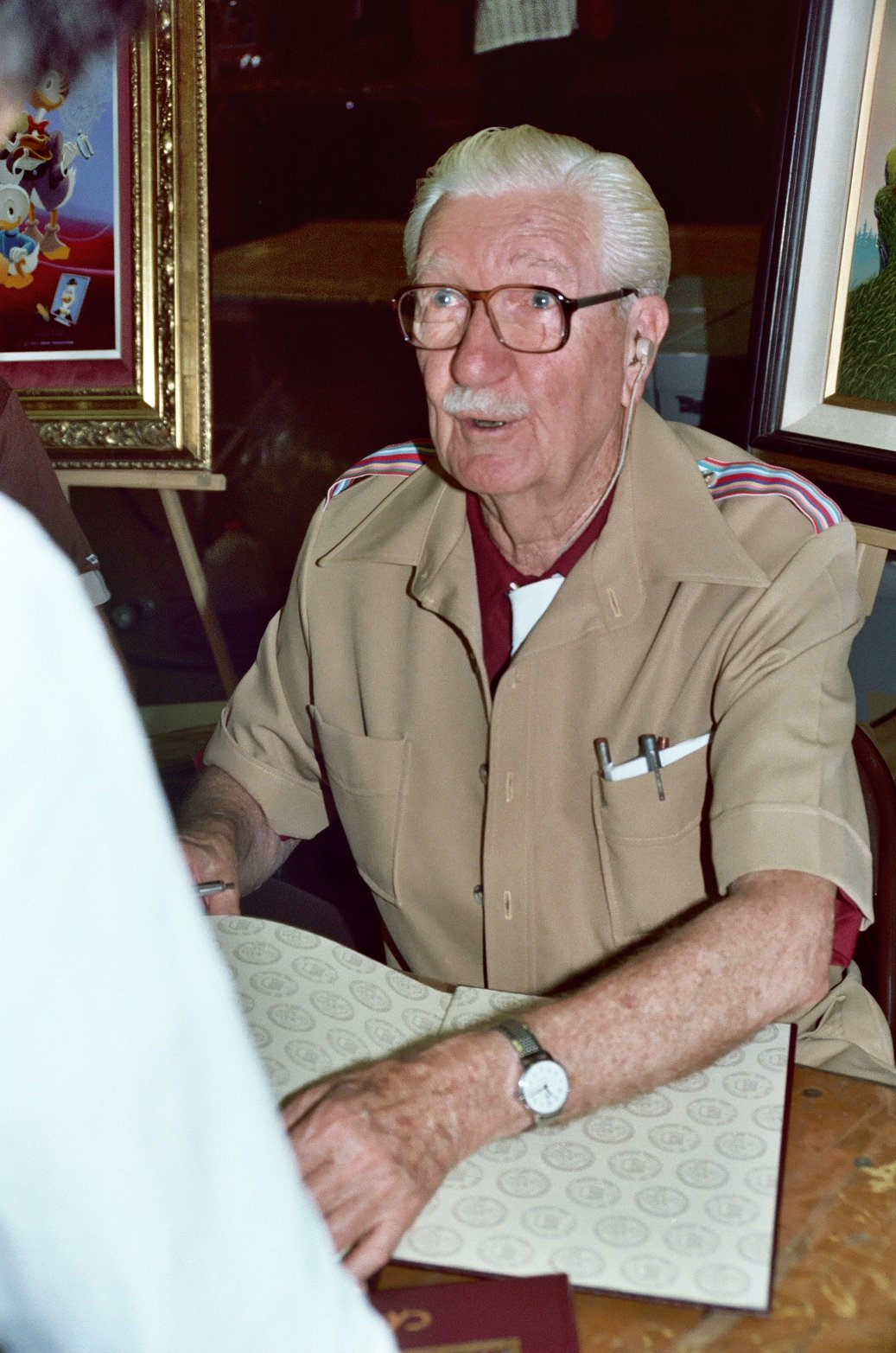 Famed Donald Duck artist Carl Barks (1901-2000) at the 1982 San Diego Comic Con (today called Comic-Con International). depicted person: Carl Barks (age: 81)